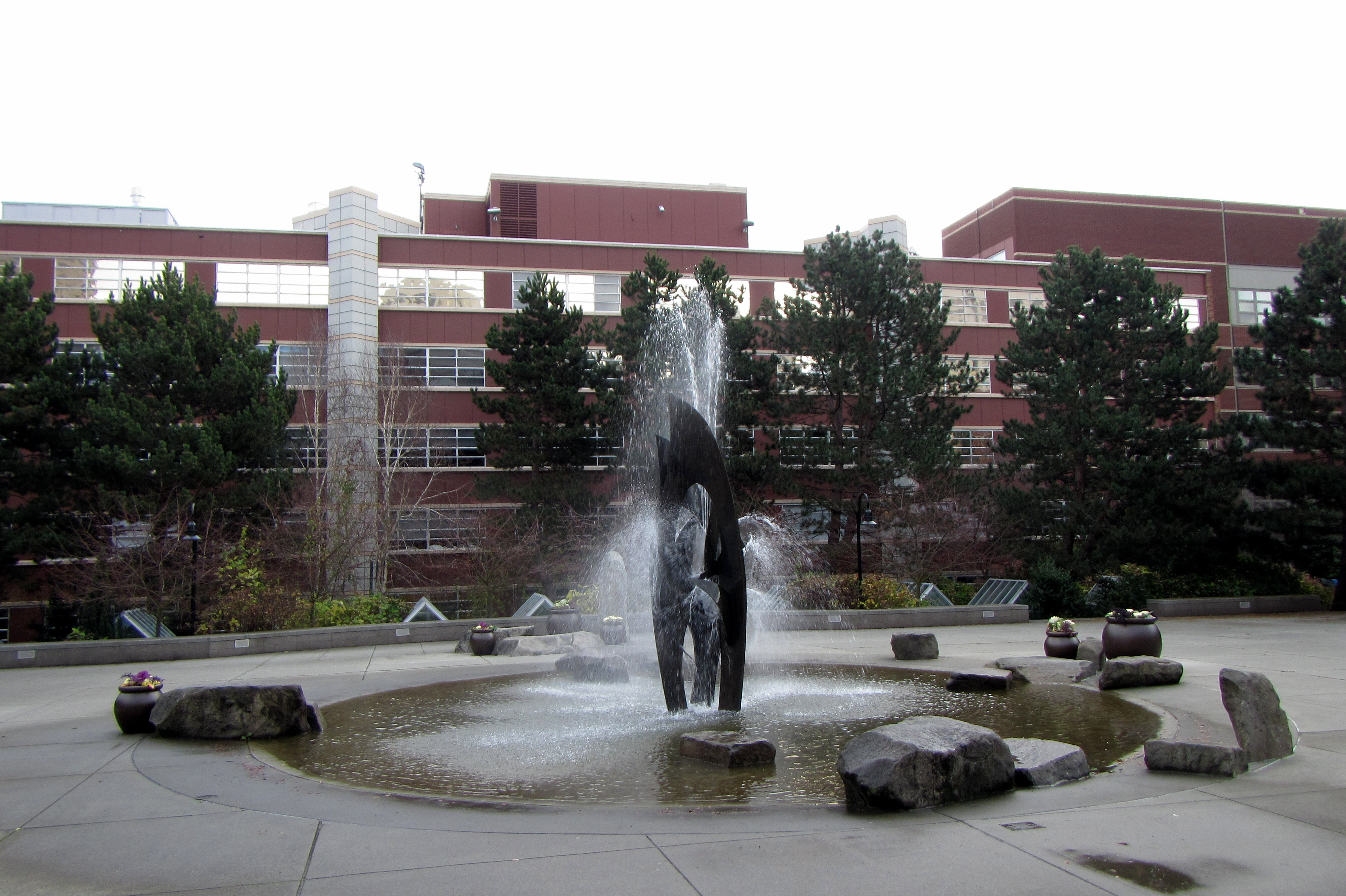 Central fountain of Seattle University シアトル大学の中央噴水